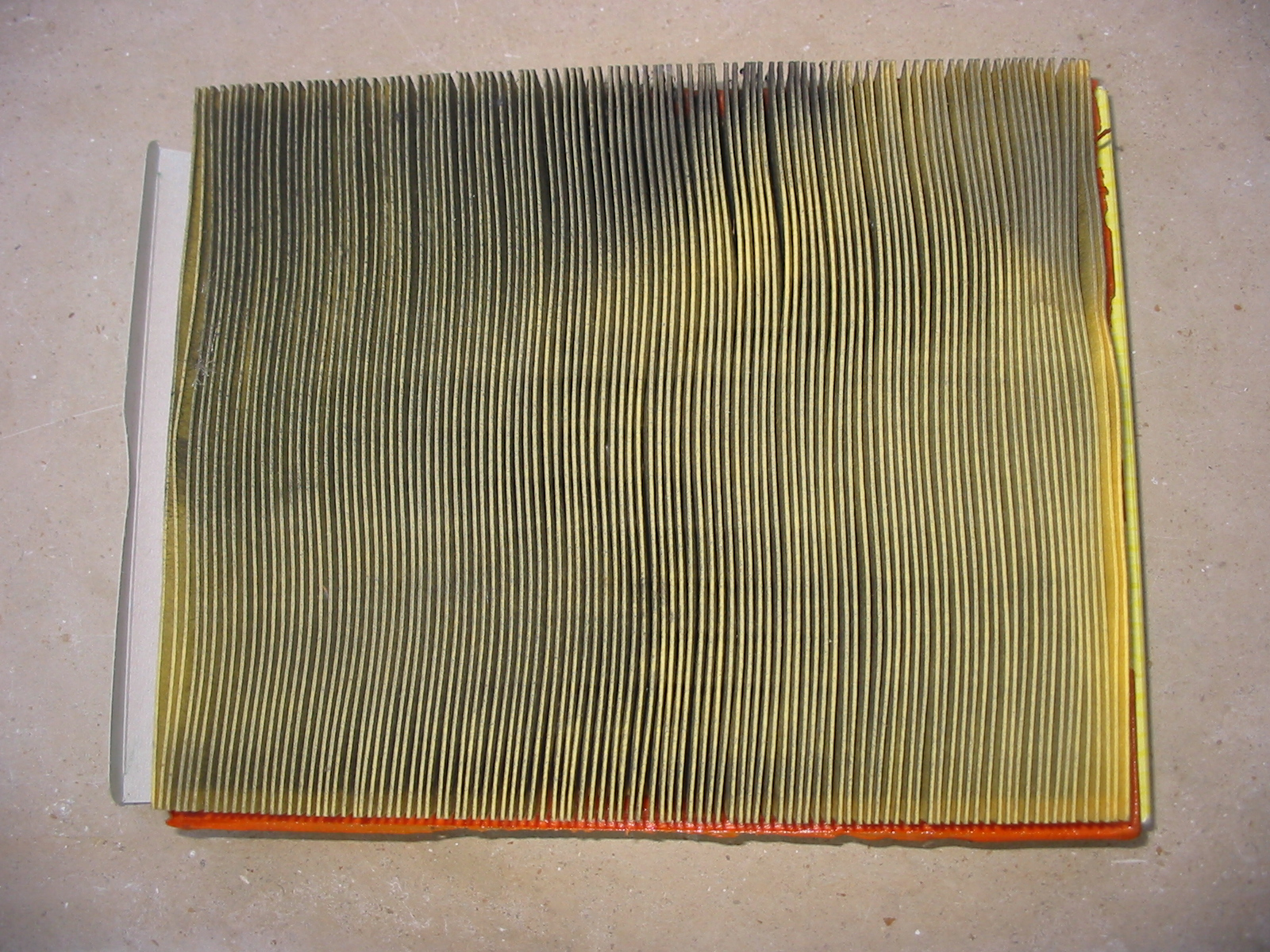 Air filter, opel astra